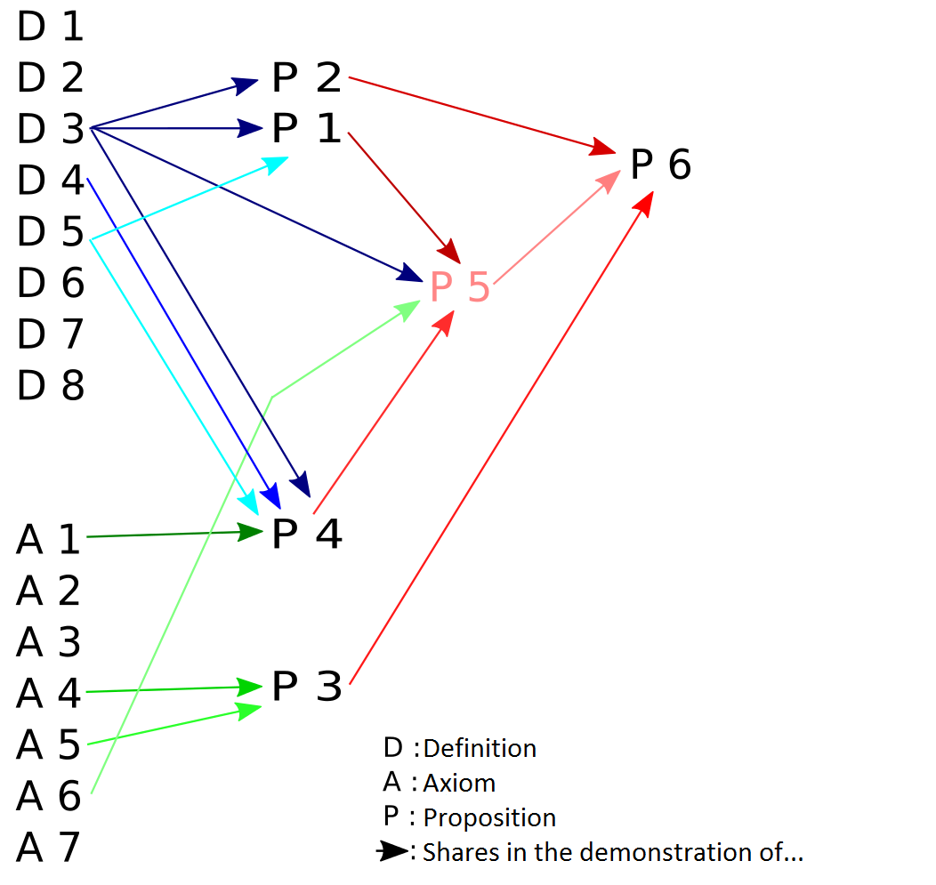 English translation of respective logics diagram as created by previous French user.